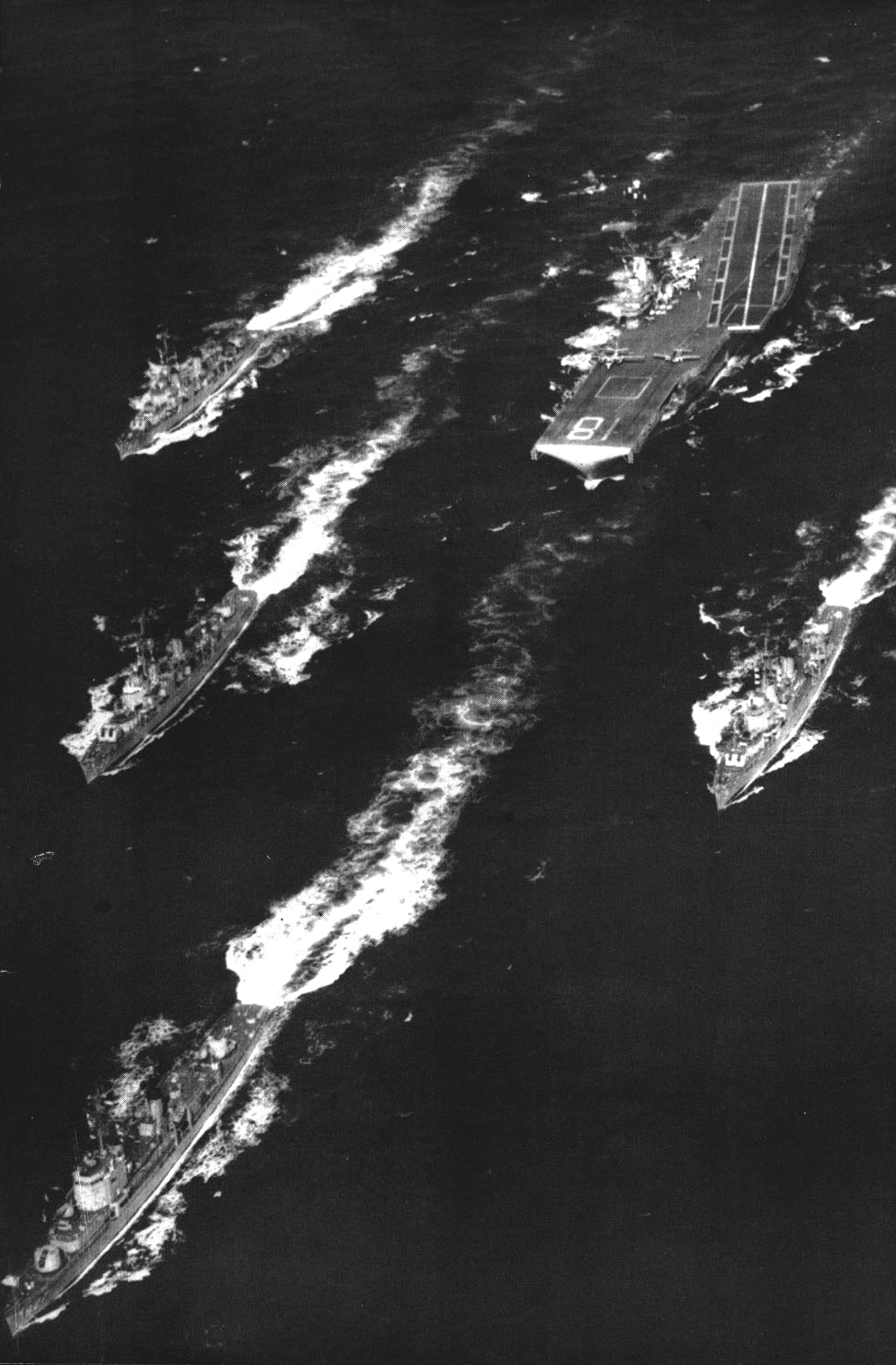 Aerial view of the U.S. Navy anti-submarine warfare Task Group Bravo, circa in 1961. Identifiable is the aircraft carrier USS Wasp (CVS-18) and the destroyer USS Robert A. Owens (DD-827), leading the formation. The four destroyers were from Destroyer Squadron 36.